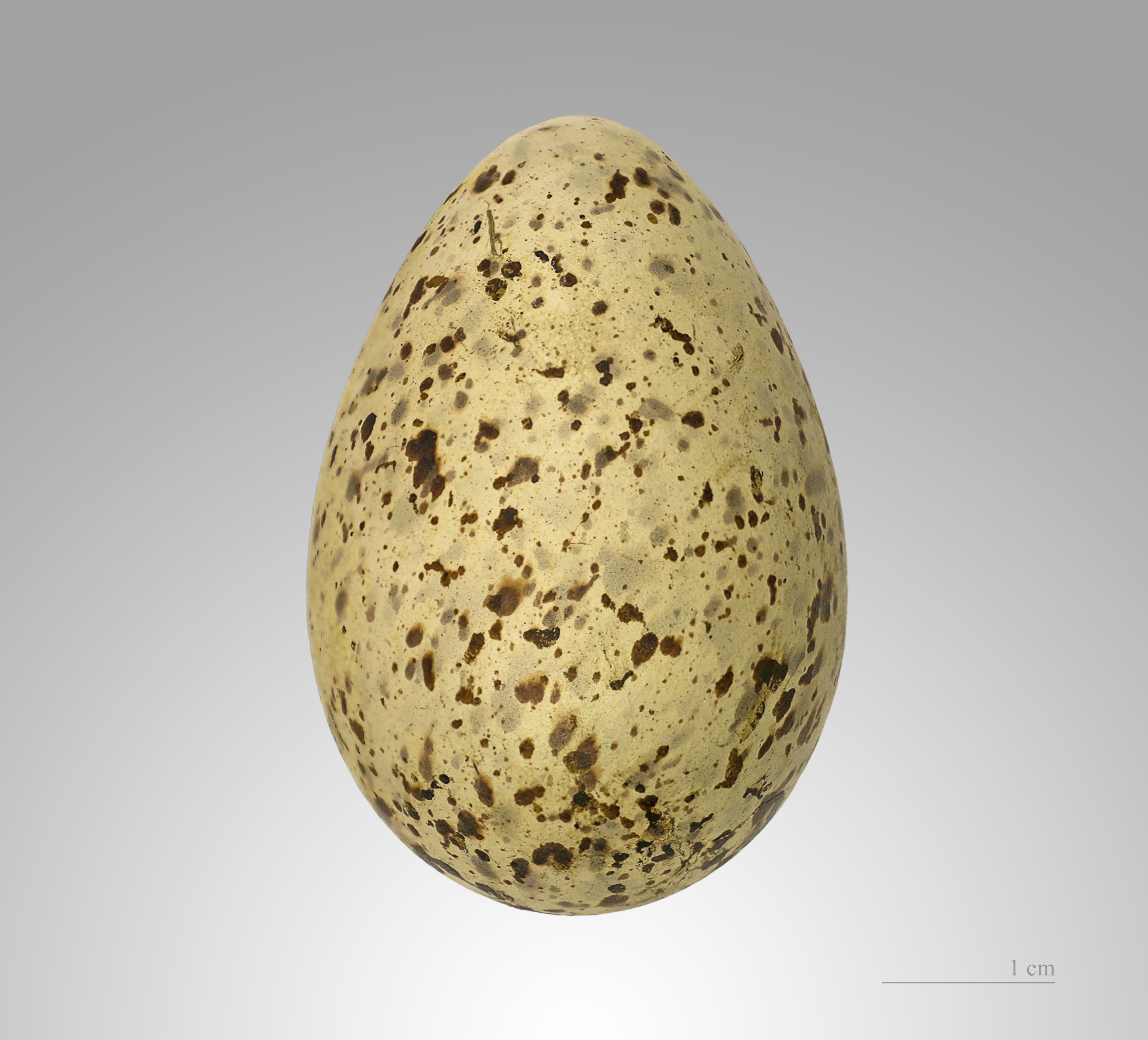 Egg of Red Knot. Collection of Jacques Perrin de Brichambaut.